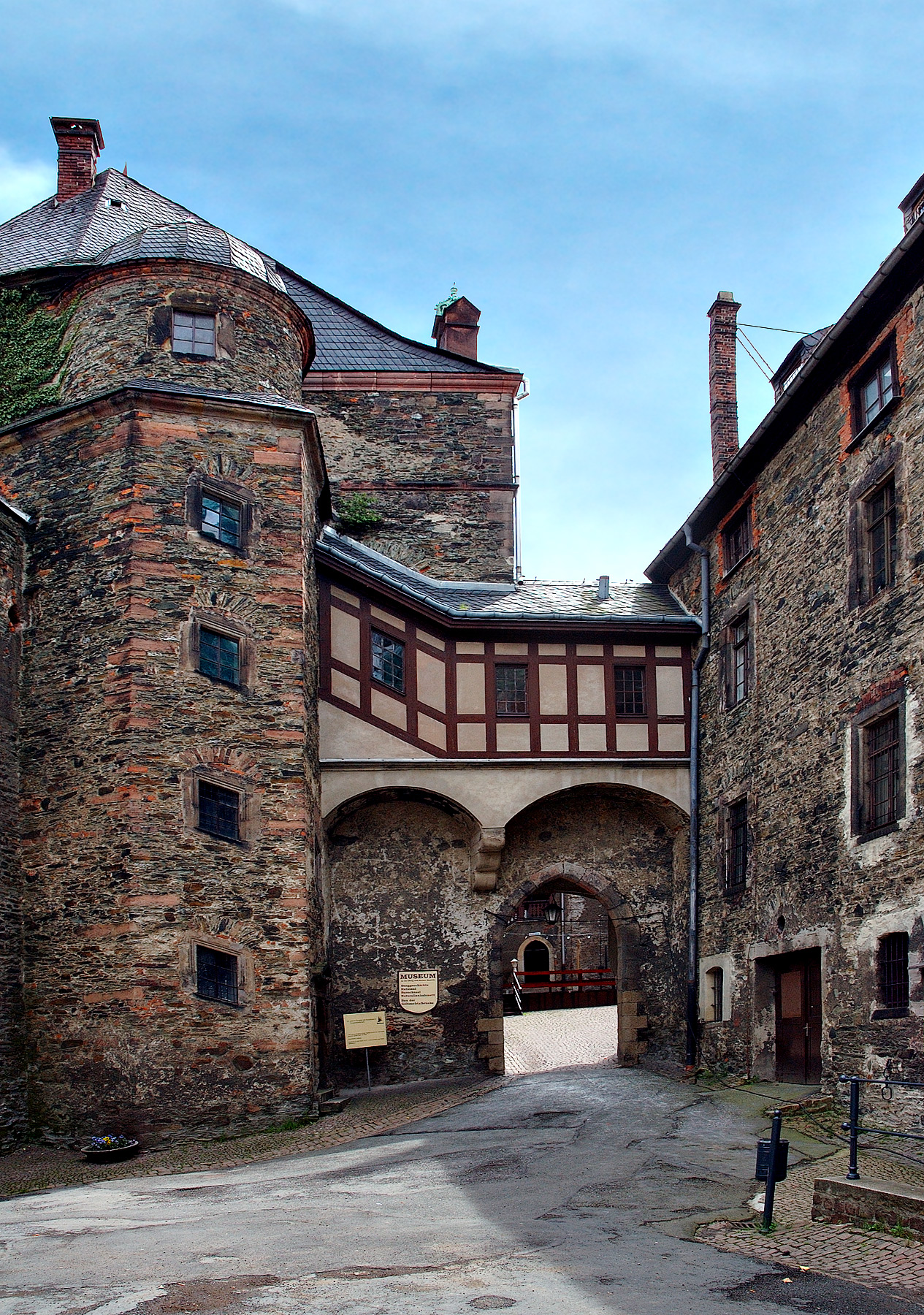 This image shows the inner courtyard of the castle Mylau (Saxony, Germany).